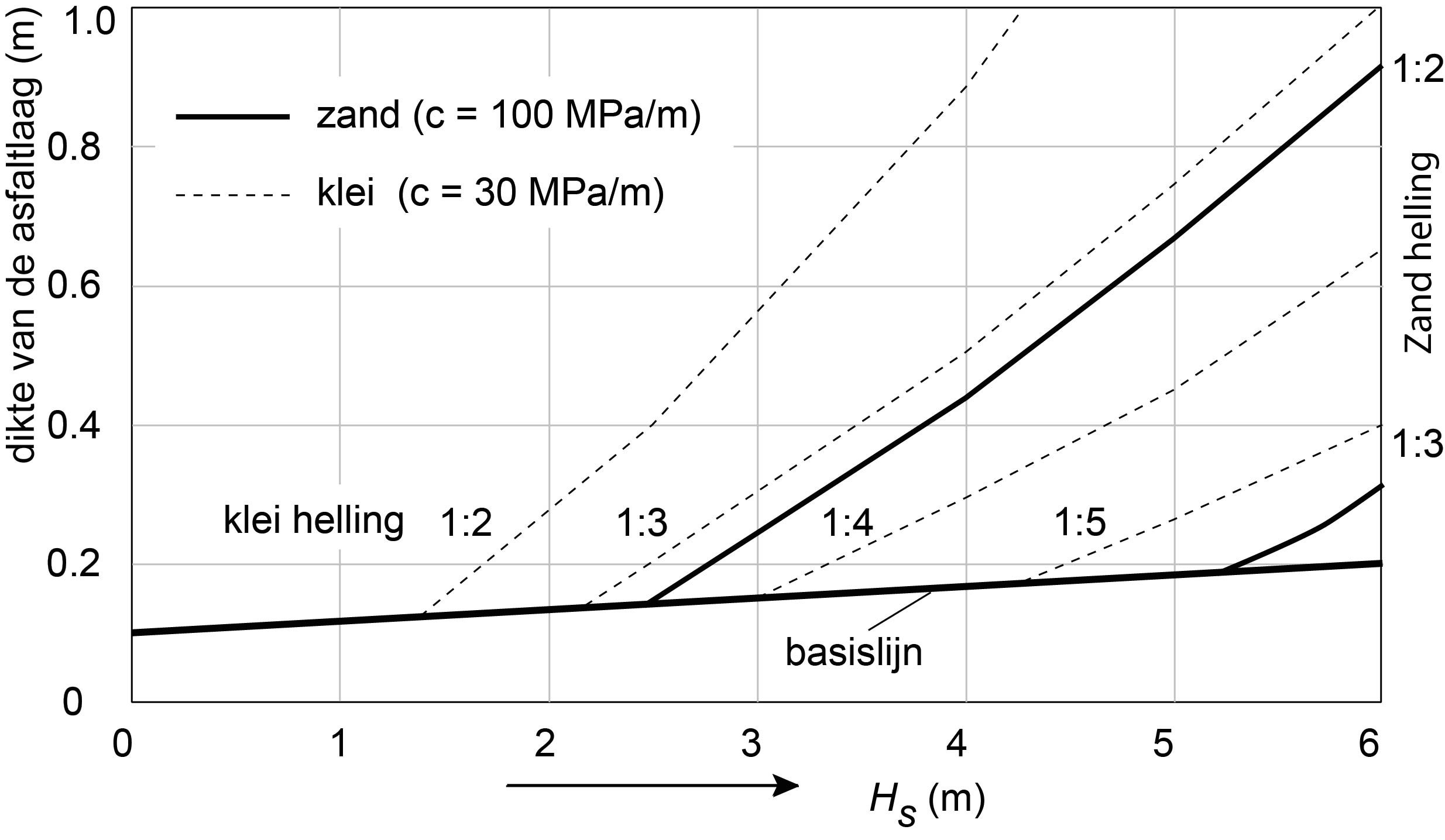 Required asphalt thickness under wave action acc. to Technical Report for Asphalt on Dikes (published in Dutch)